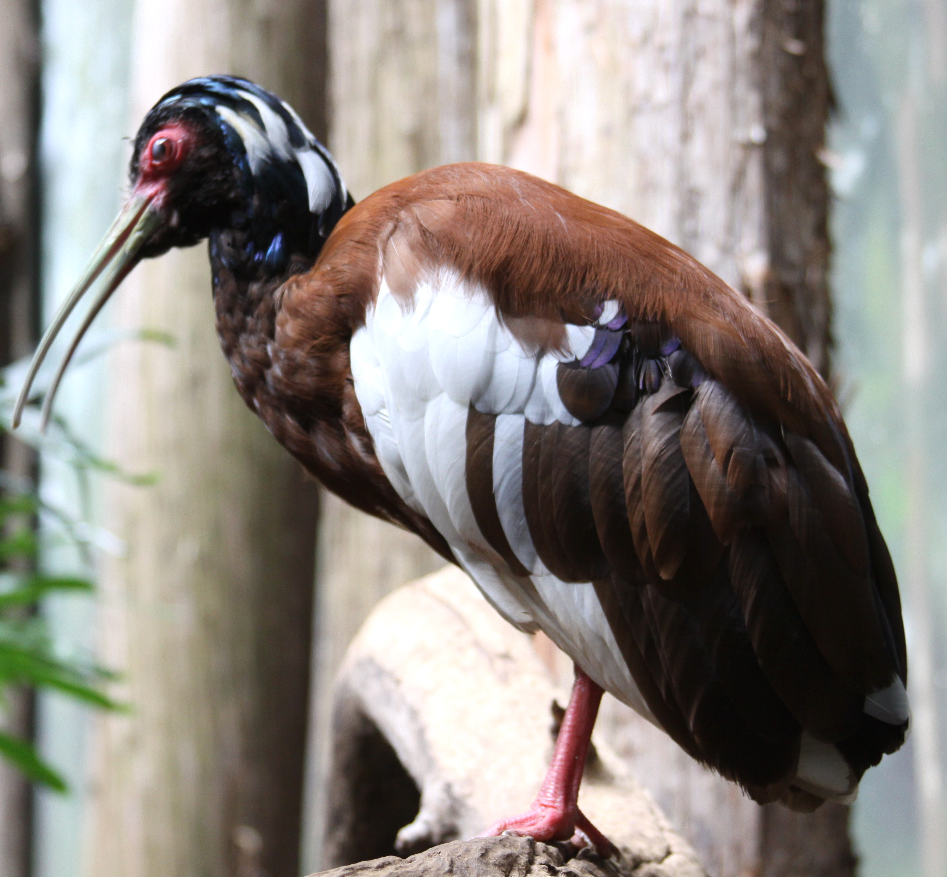 Madagascar Ibis (also known as Madagascar Crested Ibis, White-winged Ibis, and Crested Wood Ibis) at Bronx Zoo, USA.